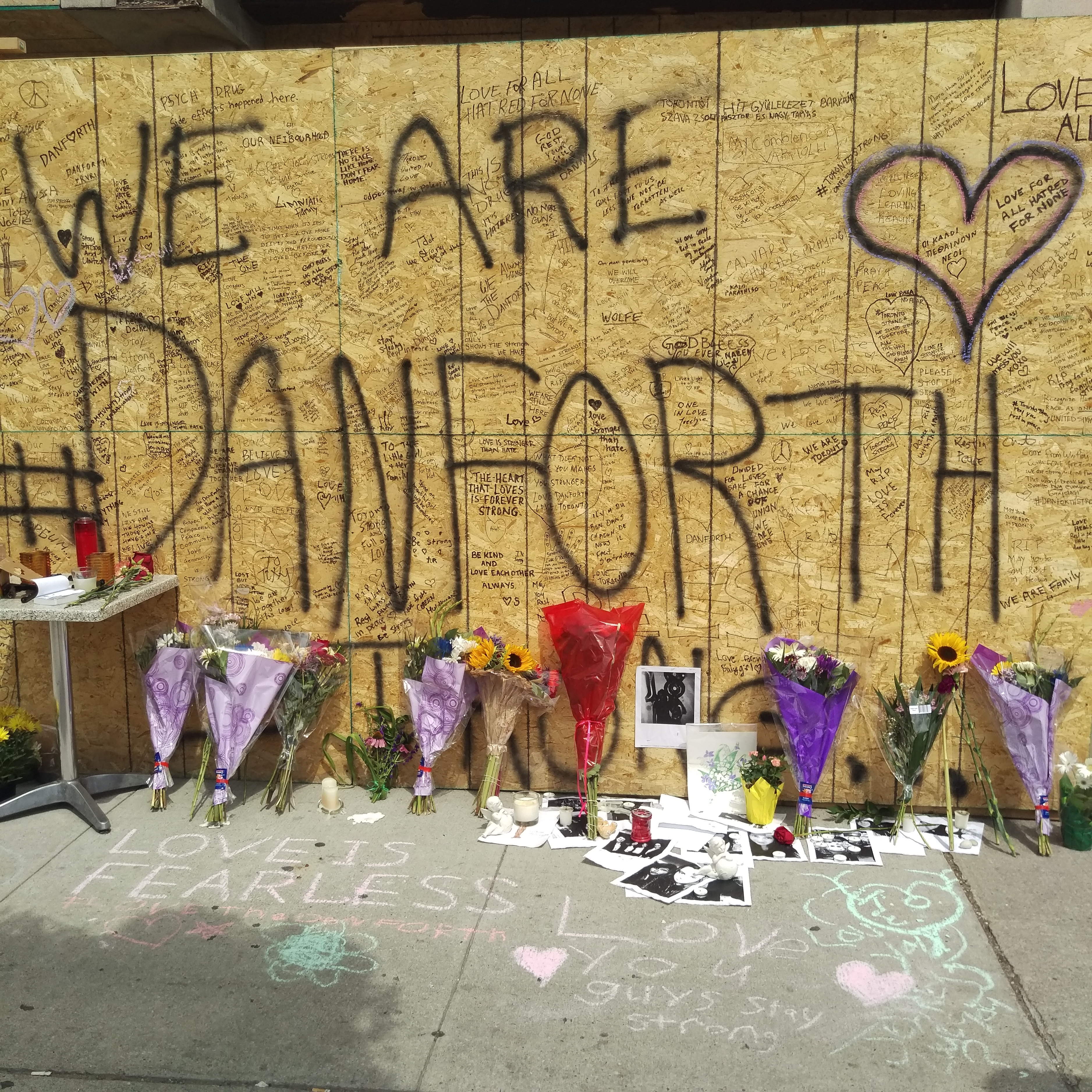 People of Toronto grieved for the death of 18 year-old Reese Fallon at this site.